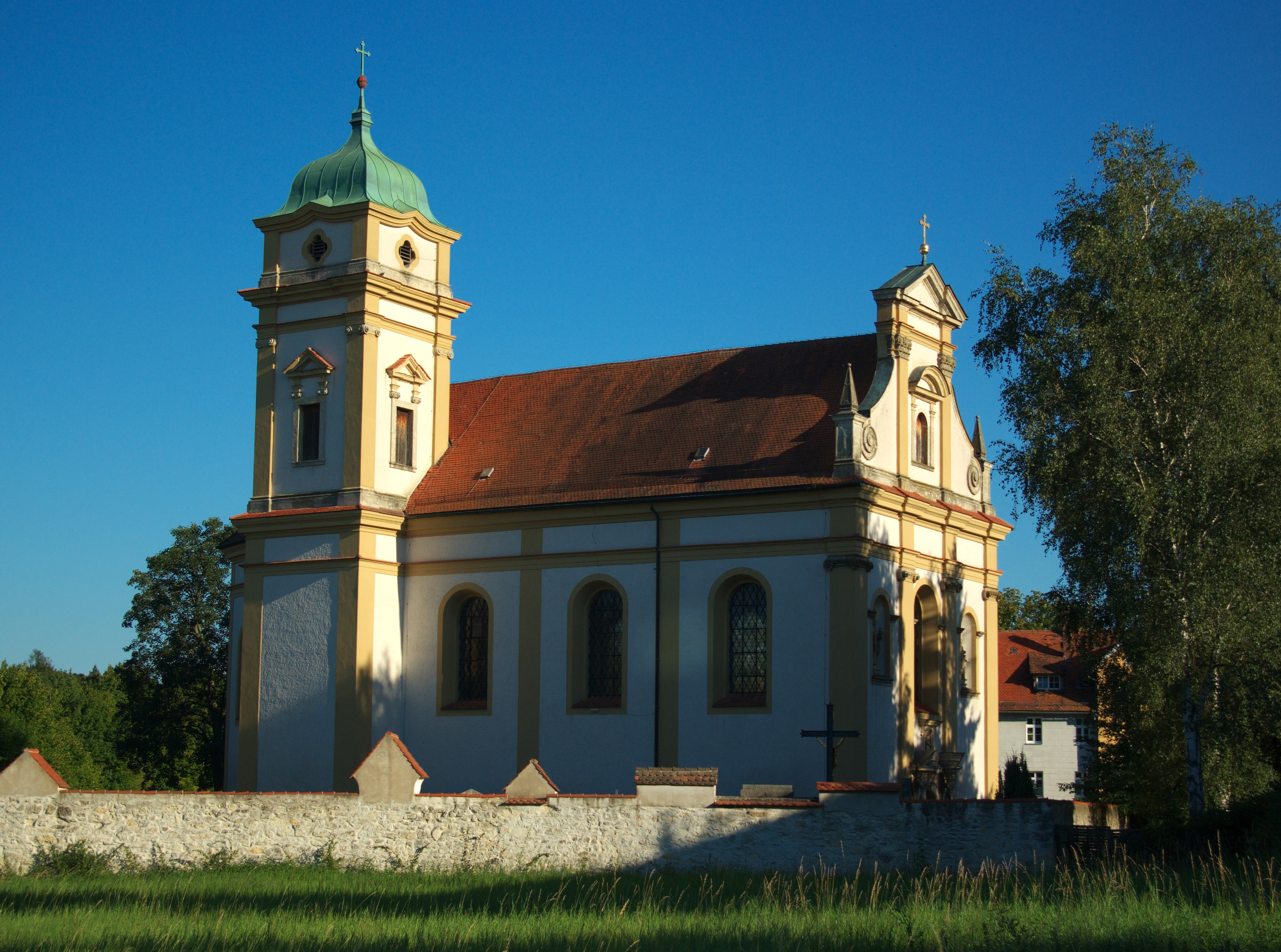 Church at Dechbetten, RegensburgThis is a photograph of an architectural monument.